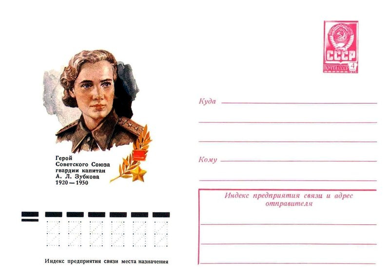 Illustrated stamped envelope with definitive stamp of the Soviet Union of 1977 featuring Hero of the Soviet Union Antonina Zubkova.